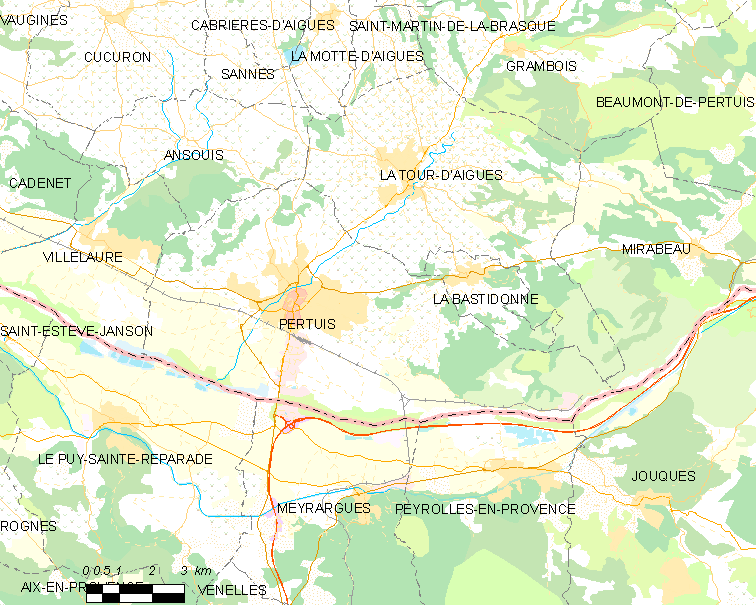 Map of French municipality Pertuis